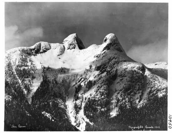 The Lions of the North Shore Mountains